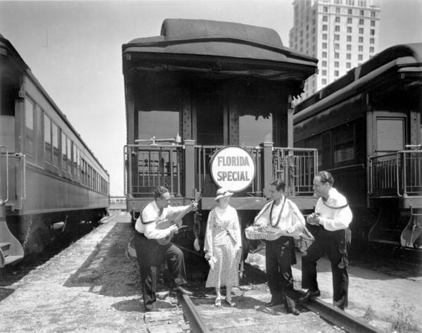 Local call number: N038732 Title: Latin band greeting visitor: Miami, Florida Date: 1936 Physical descrip: 1 photonegative; b&w; 4 x 5 in. Series Title: General collection Repository: State Library and Archives of Florida, 500 S. Bronough St., Tallahassee, FL 32399-0250 USA. Contact: 850.245.6700. Persistent URL